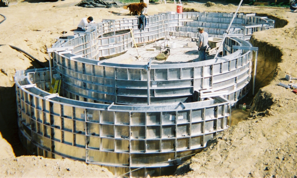 Photo from WTF Formwork projects, all concrete swimming pool constructed with aluminum formwork by Wall-Ties and Forms, Inc.